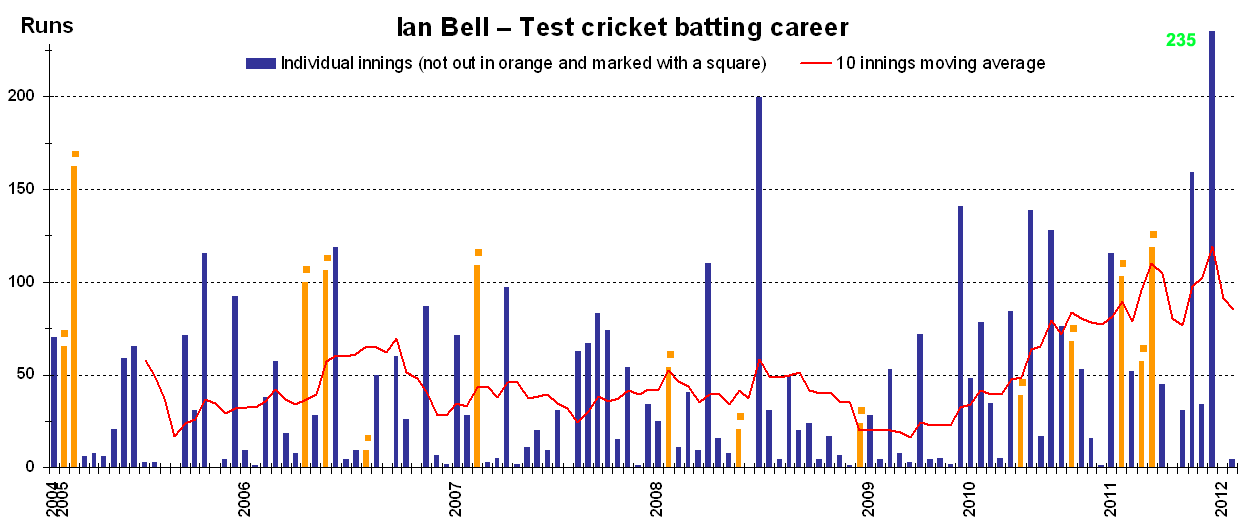 This graph details the test match performance of cricketer Ian Bell and was created by en.wiki user:EdChem. Each bar indicates a single test match innings, blue ones for innings in which he was dismissed, orange ones (marked with a square) for innings in which he batted but was not out. The red line shows a 10 innings moving average as at the end of each innings. The files File:Ian Bell test batting career v1a.png and File:Ian Bell test batting career v1b.png shows the same performance data but with a career batting average as at the end of each innings rather than the 10 innings moving average, and use different vertical scales.The graph was generated with Microsoft Excel 2003, the resulting chart being copied to Adobe Photoshop 9 and saved in .png format, using data from Cricinfo [1] and Howstat [2]. This version is current as at 22 January 2012, which is also the date it was prepared.